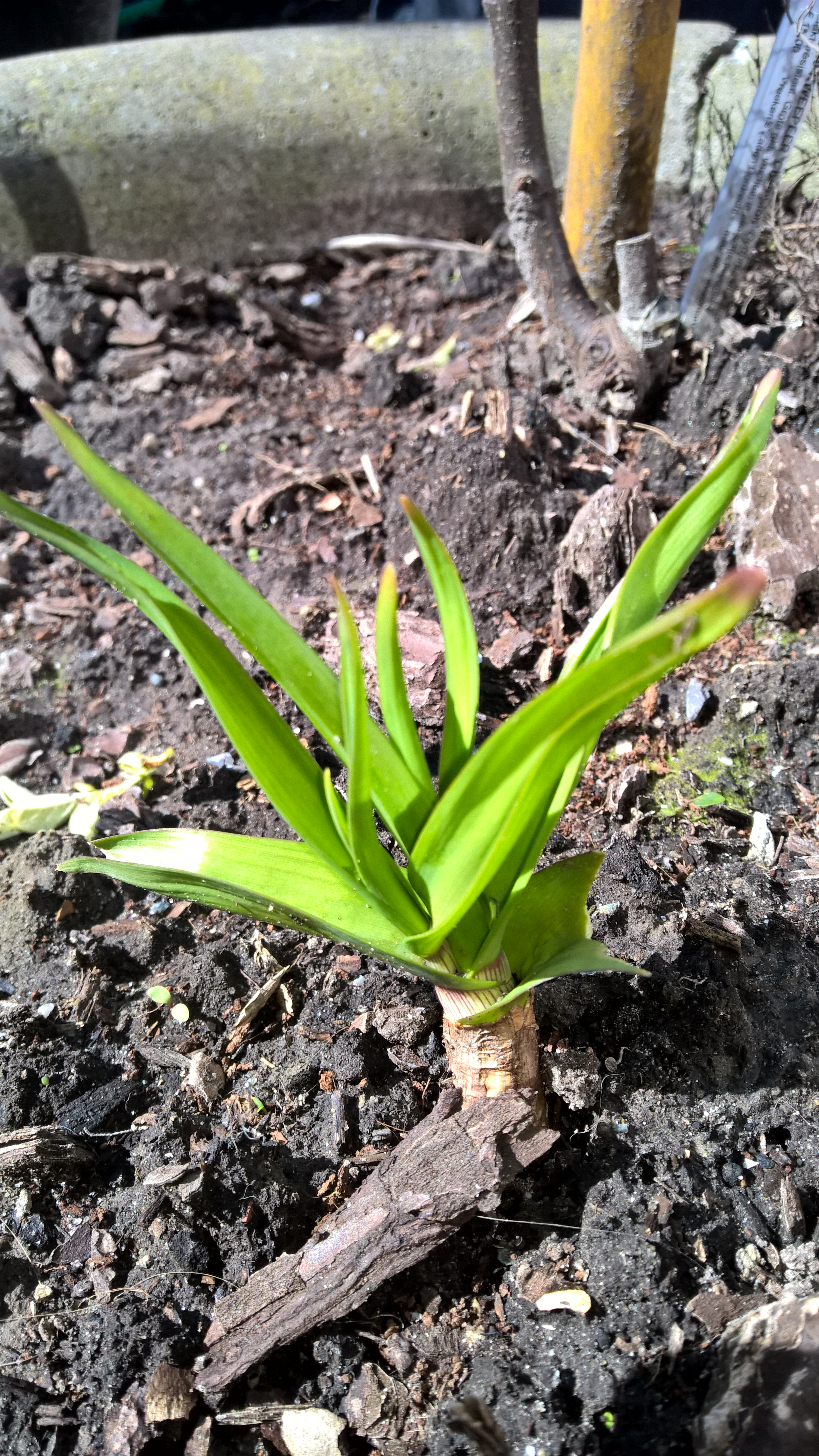 lop-sided onion